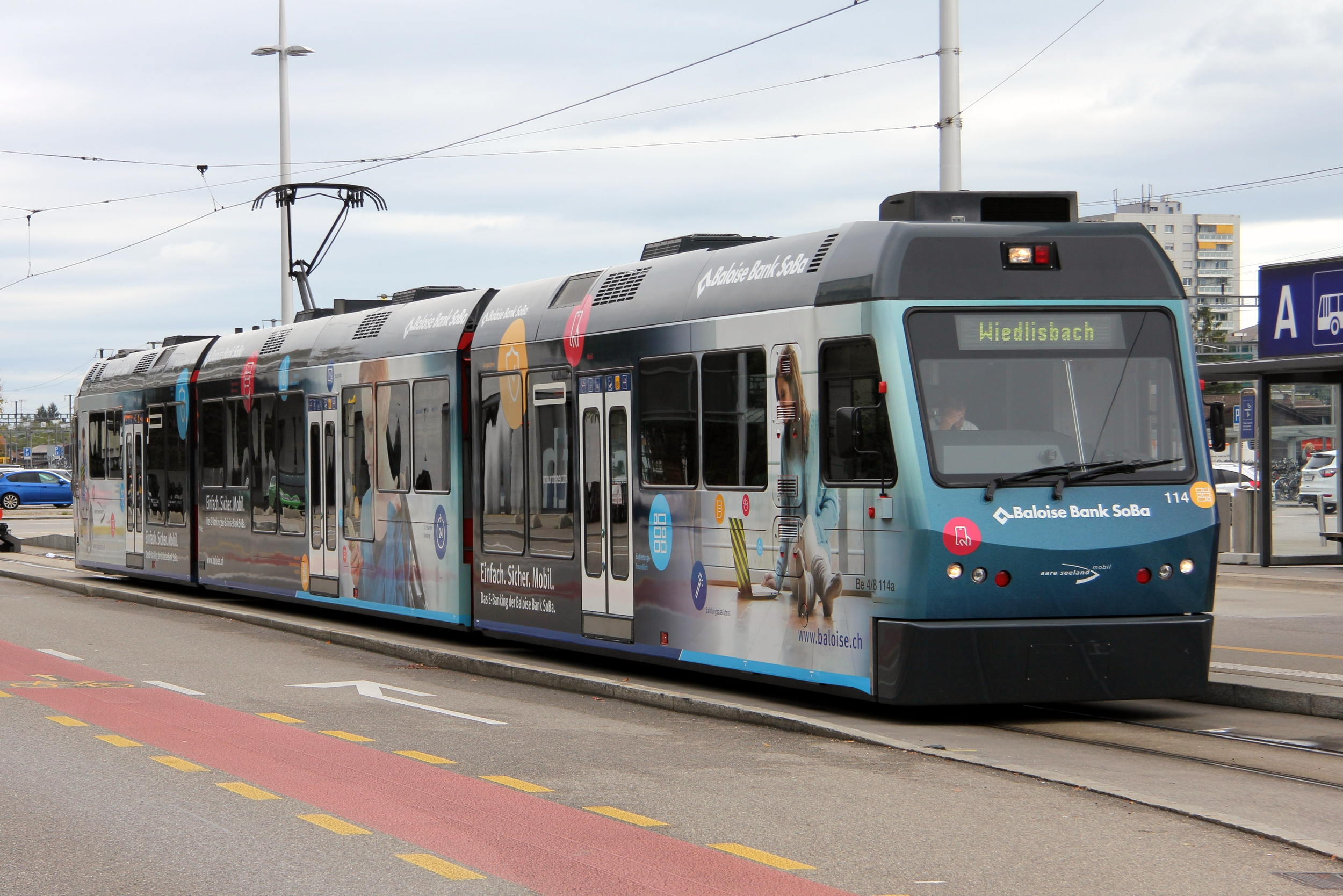 The ASm Be 4/8 114 with advertising for "Baloise Bank SoBa" ready to leave Solothurn with the R 9440 Solothurn - Wiedlisbach.